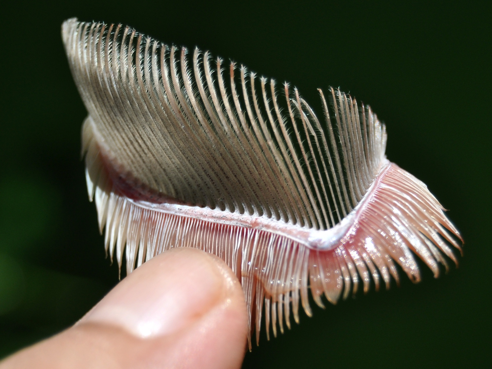 Indian mackerel Rastrelliger kanagurta from Jakarta, Indonesia. FL 216 mm. Gill rakers (above) are very long compared with gill filaments (below).